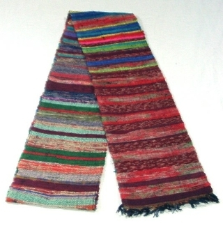 This is a sakiori hanhaba obi. Sakiori is a traditional Japanese technique of rag weaving.The fabric strips are cut finely and woven into a tweed-like fabric.